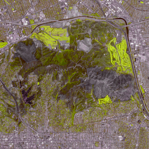 This satellite image of Griffith Park was captured about a month after the fire. Both visible and infra-red wavelengths of light have been used to make this image. Vegetation appears in various shades of green, while the burned areas appear charcoal. The park’s unburned, natural vegetation appears darker green, while the irrigated golf courses adjacent to the park are bright green. Roads and dense urban areas appear grey or white. Water is dark blue. Large burned areas are evident in the north west and south-east parts of the park, with scattered smaller patches along the southern margin. Some botanical gardens and parts of a bird sanctuary, as well as some park structures like restrooms, were destroyed.